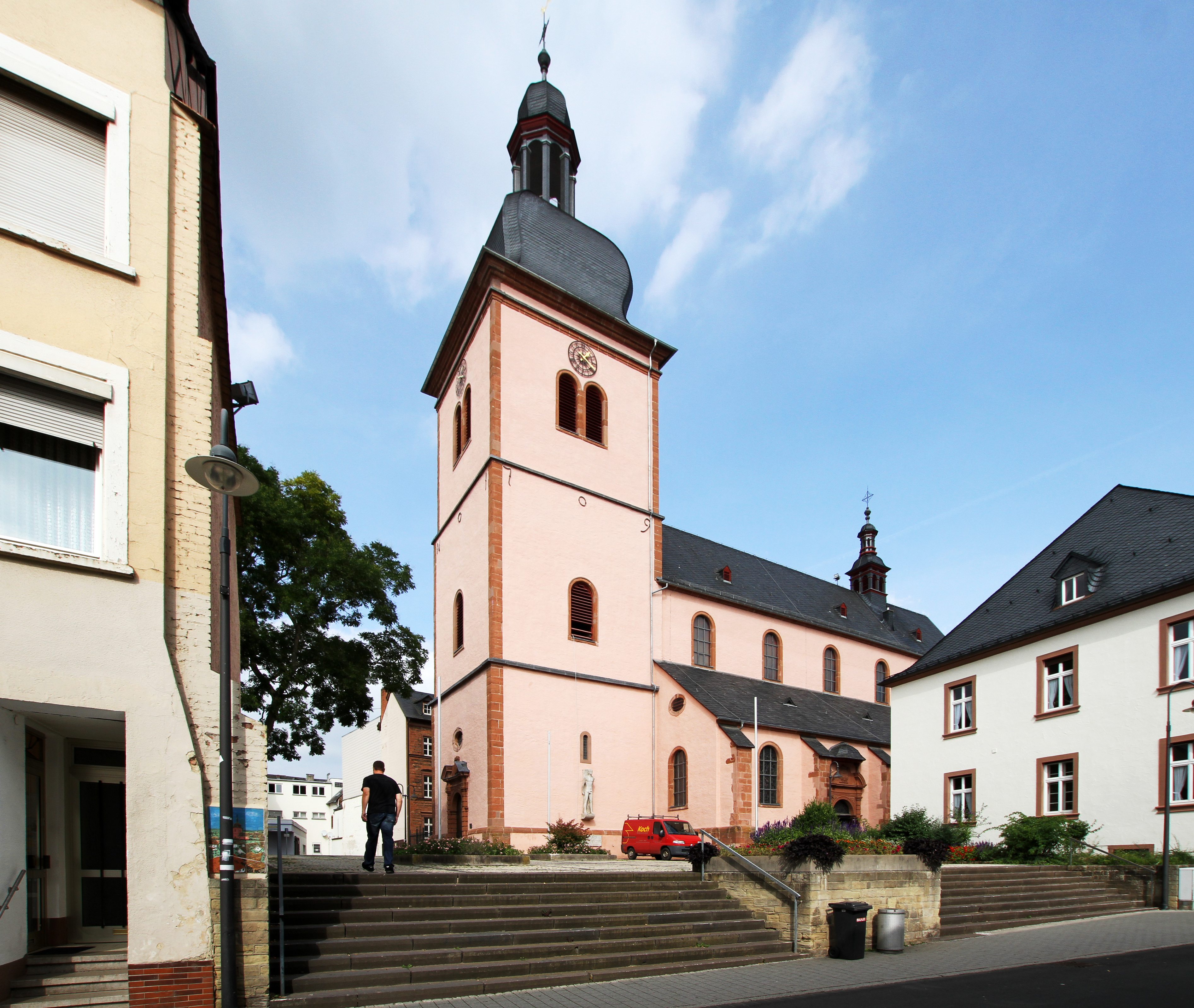 Baroque church saint Marc in Wittlich, Rhineland-Palatinate